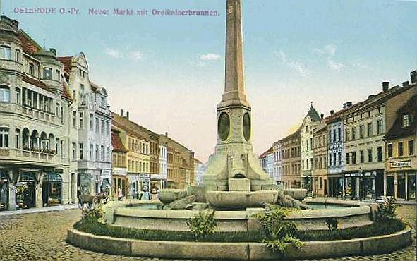 New Market Square and Three Emperors Fountain in Ostróda about 1890